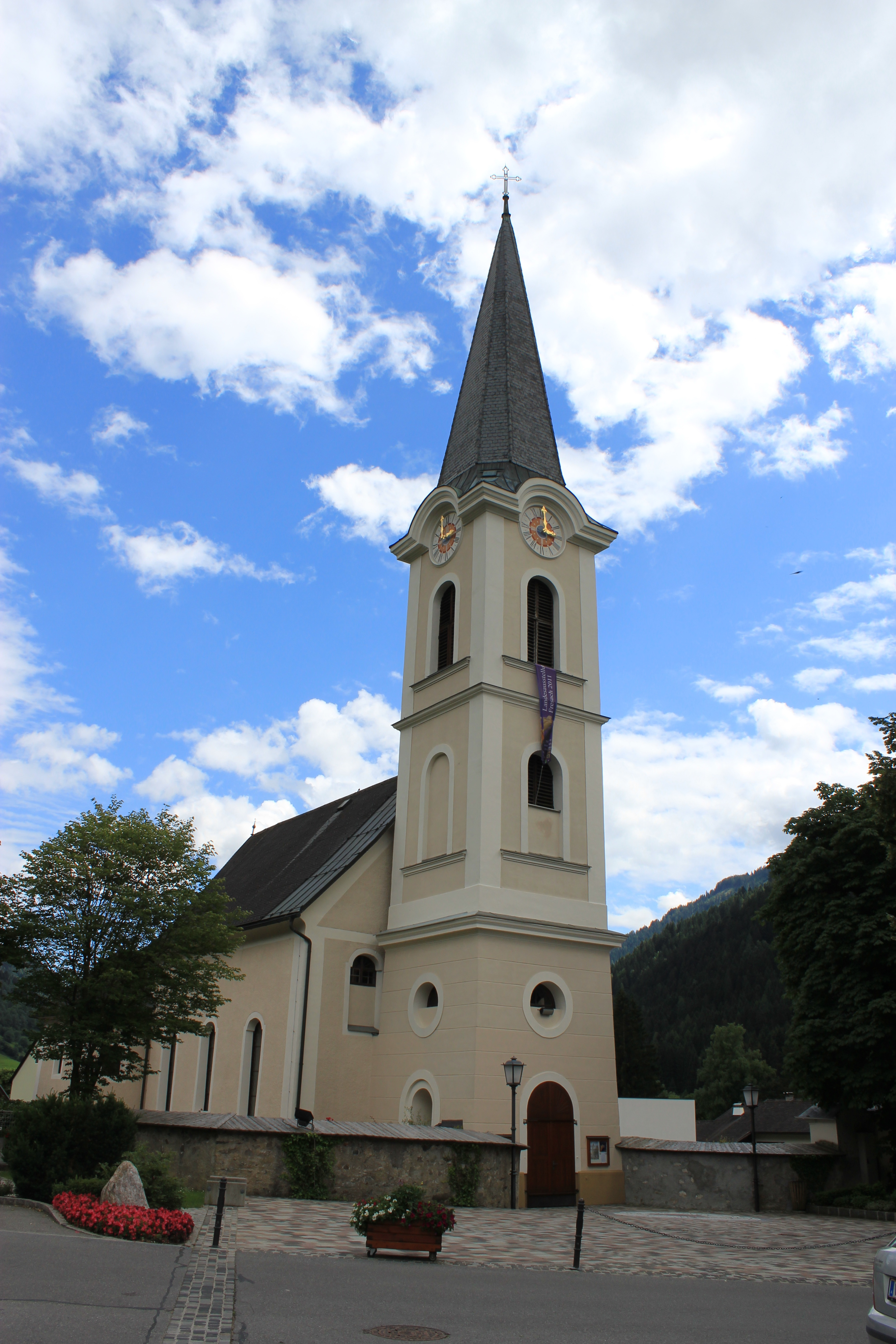 Luterian church in Feld am See